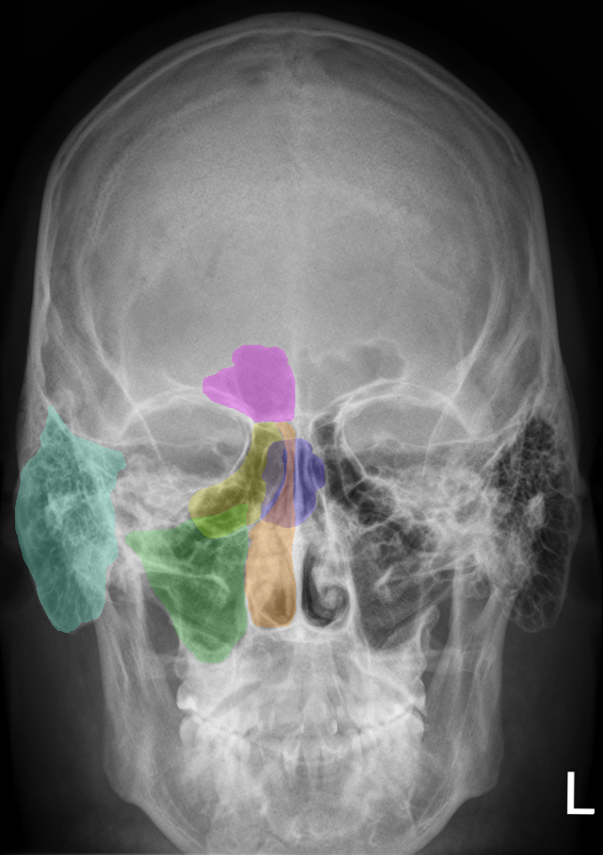 X-ray of human skull in frontal view with paranasal sinuses. The paranasal sinuses and main nasal cavity are marked with colours: Main nasal cavity: amber Maxillary sinus: green Ethmoidal cells: yellow Frontal sinus: purple Sphenoidal sinus: blue Mastoid cells: cyan